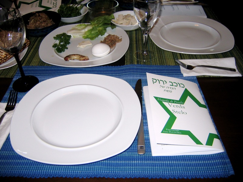 Passover Seder table with an Esperanto Haggadah of Pesach